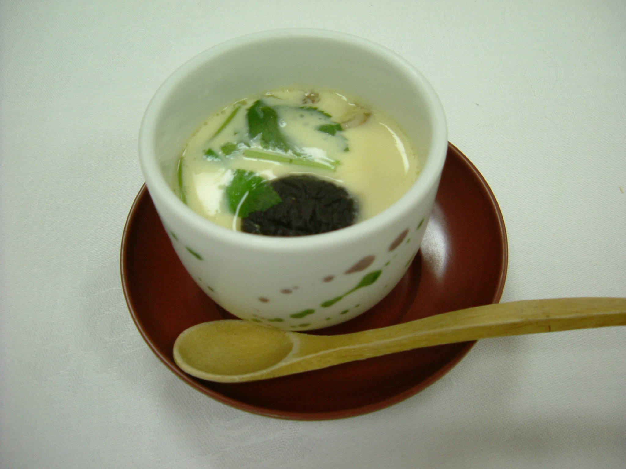 Chawanmushi